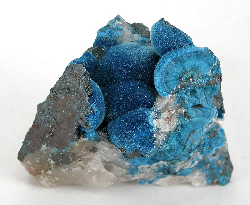 Shattuckite Locality: Otjikotu, Kaokoveld, Kunene, Namibia Size: miniature, 3.8 x 3.5 x 2.2 cm Shattuckite A really rich specimen for this material, which has been trickling out the last 2 years. However, most of them , all I have seen certainly, have much smaller botryoidal balls of shattuckite and thus less impact and significance. This is hands down the best I have in the collection in terms of significance, therefore.